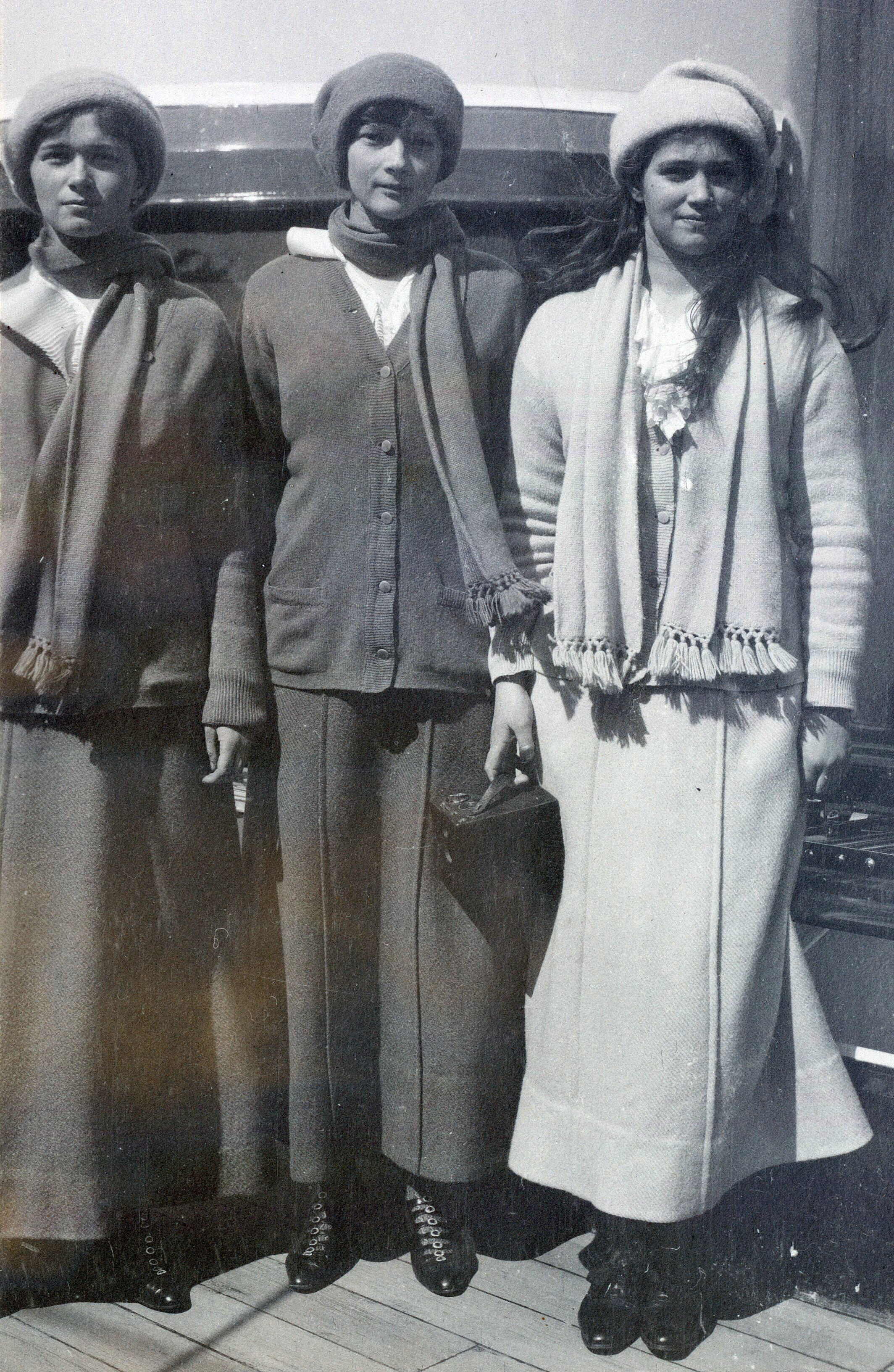 Grand Duchesses Olga, Tatiana and Maria Nikolaevna aboard the Imperial Yacht Standart.